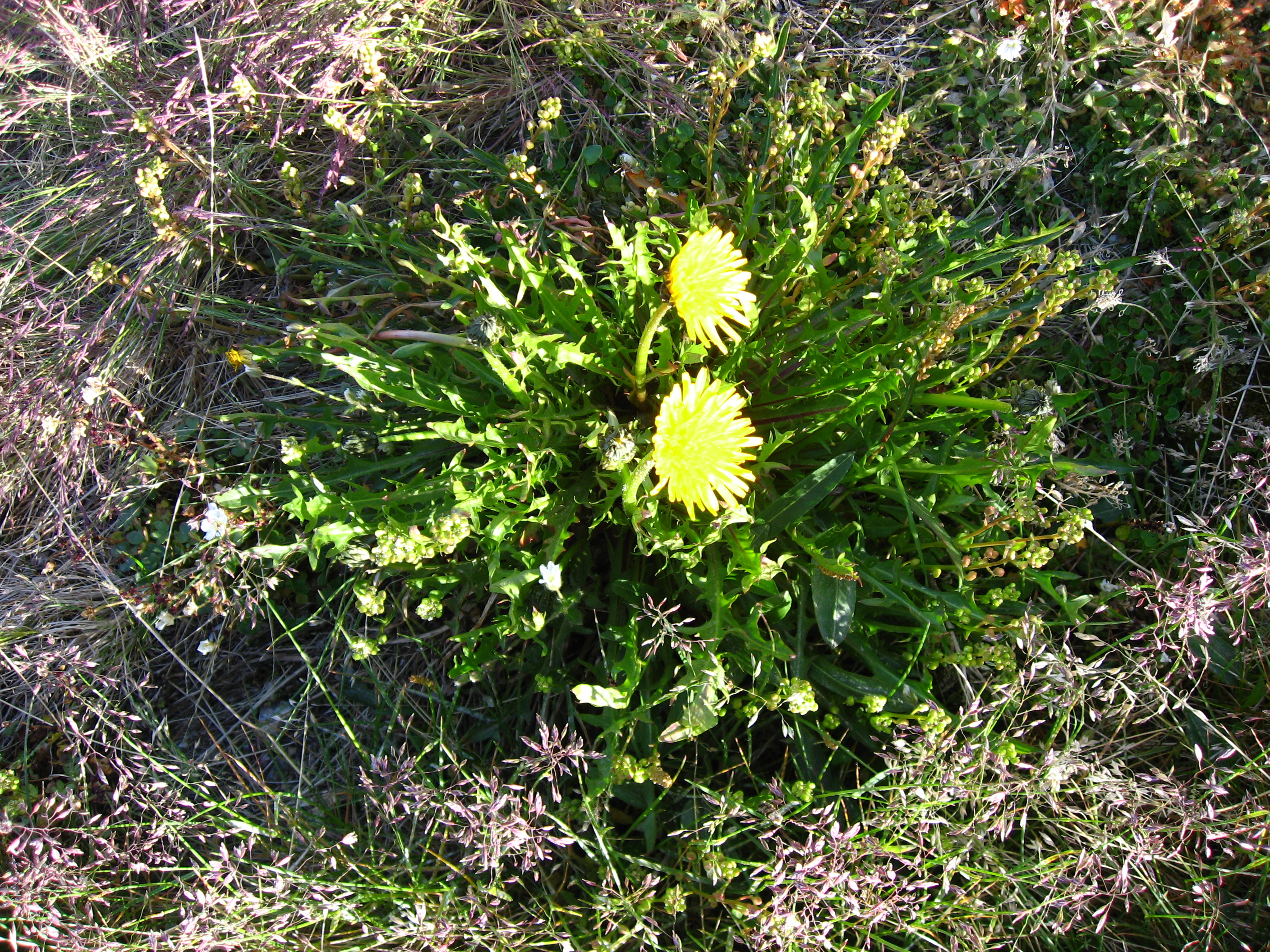 Dandelion (Taraxacum sp.) photographed near house in Upernavik, Greenland. There are about 25 different species of dandelion in Greenland. However I do not have the skils and knowledge to determine which one it is.